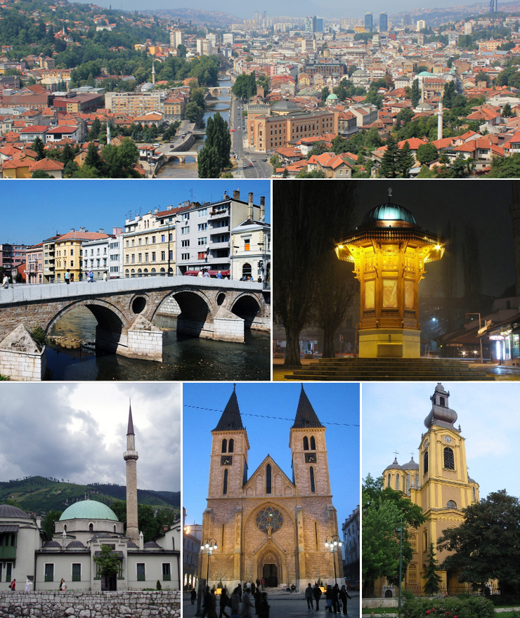 Sarajevo collage: panorama by night, Latin Bridge, Sebilj, Emperor's Mosque, Cathedral of Jesus' Heart, Serb Orthodox Cathedral